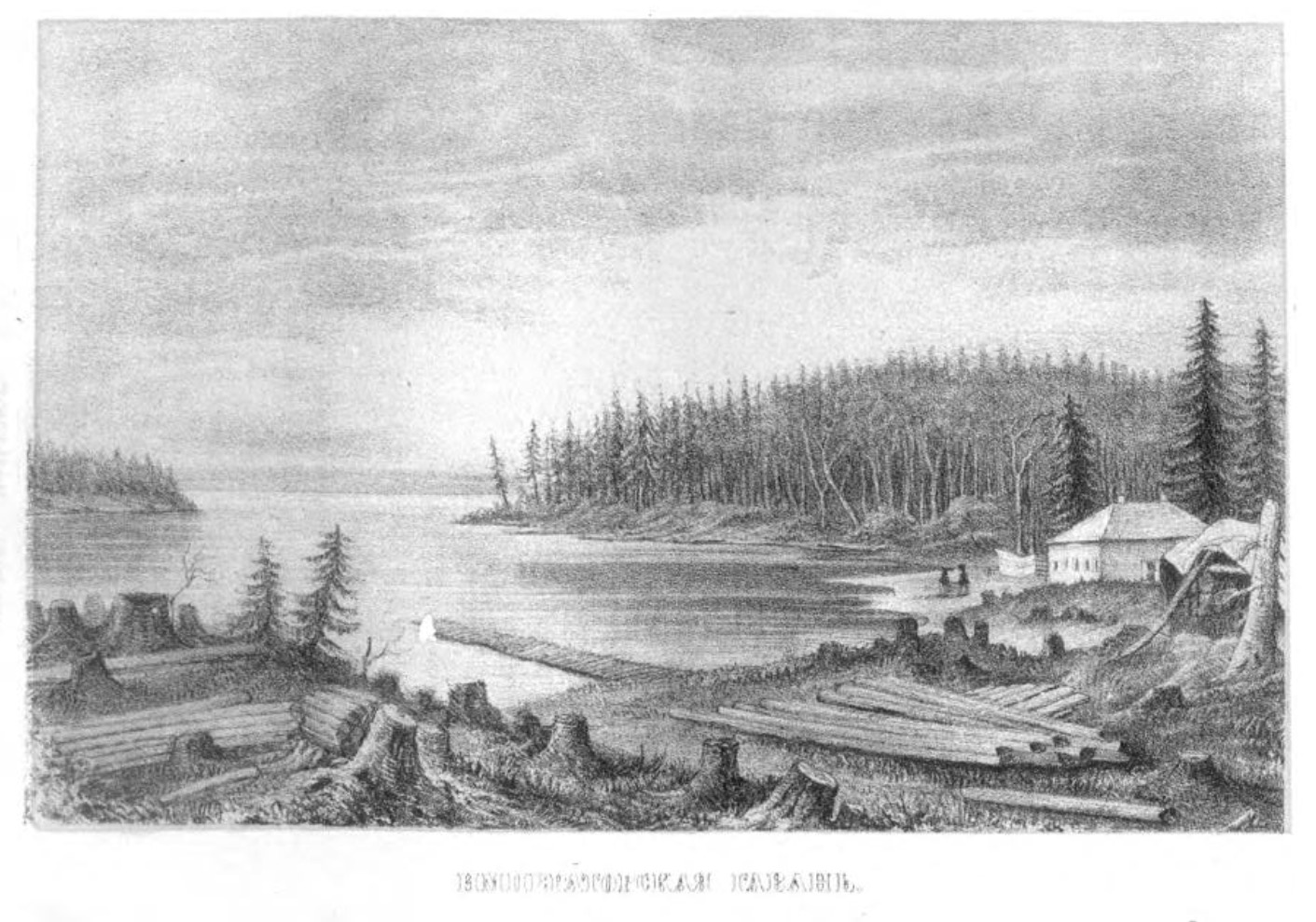 "Imperatorskaya Gavan". Page 253 of Aleksei Vysheslavtsev's Book. Illustration from Aleksei Vysheslavtsev's Ocherki perom i karandashom, iz krugosvetnogo plavaniya (Sketches in Pen and Pencil from a Voyage around the World).